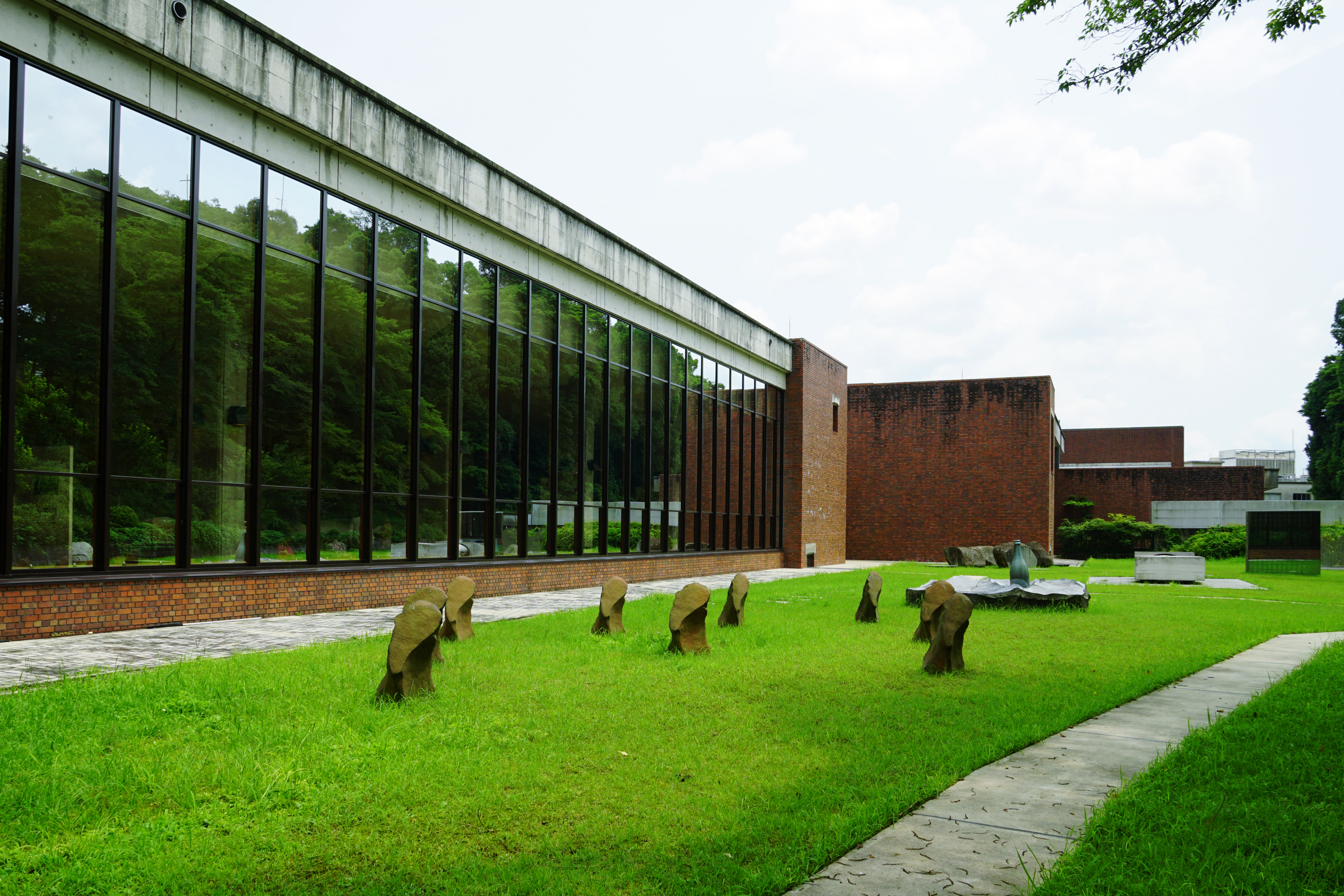 Yamaguchi Prefectural Art Museum in Yamaguchi, Yamaguchi prefecture, Japan.